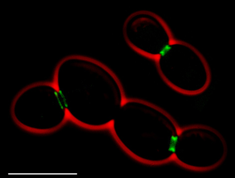 Fluorescent micrograph of Saccharomyces cerevisiae with GFP-tagged septins. Green: AgSEP7-GFP (septin), red: outline of the cell (phase contrast), scale bar: 10μm